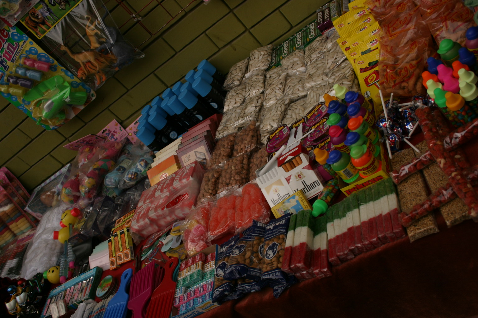 A typical street vendor's offerings.